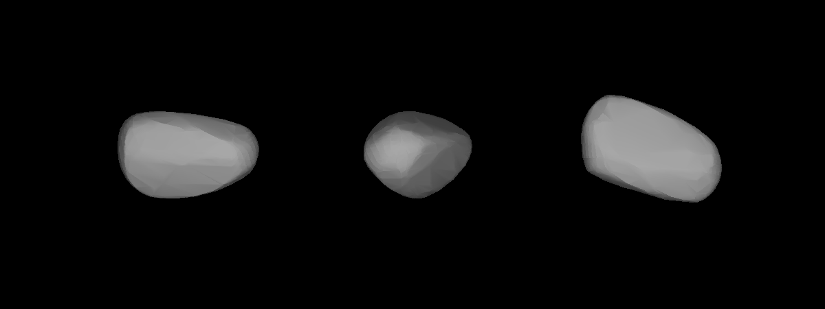 A three-dimensional model of 311 Claudia that was computed using light curve inversion techniques.